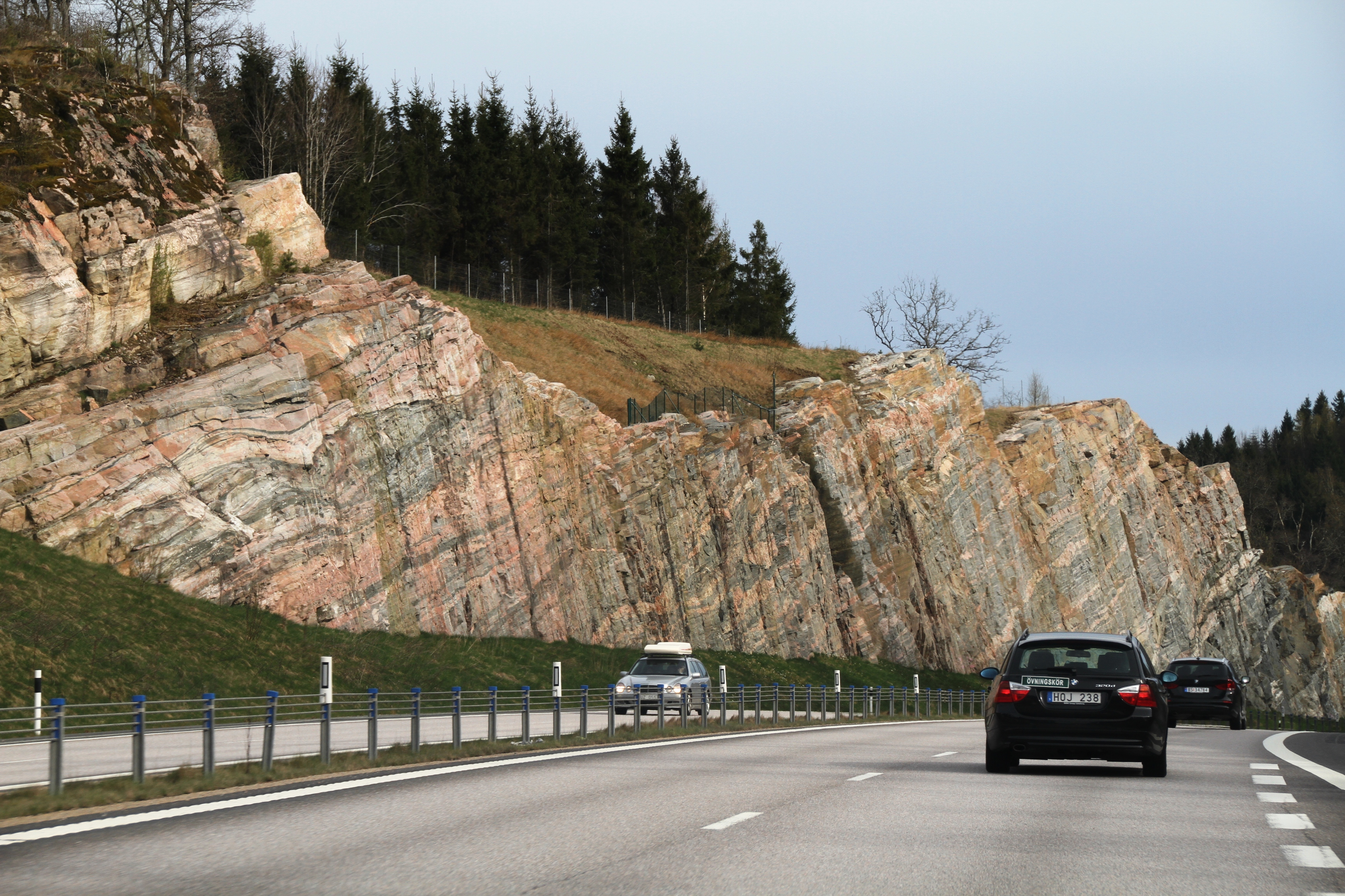 Geology along the E-6 highway through Munkedals kommun, Western Sweden. The craton solid rock here is 900 - 1.100 mio years old.